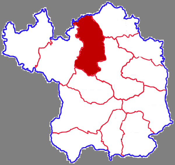 Location of Ansai county in Yan'an city, China